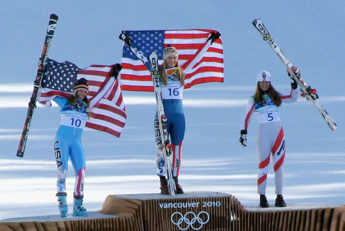 The medal ceremony for the Women's downhill February 18, 2010 in Whistler at the 2010 Winter Olympics. From left: Julia Mancuso (silver), Lindsey Vonn (gold) and Elisabeth Görgl (bronze)